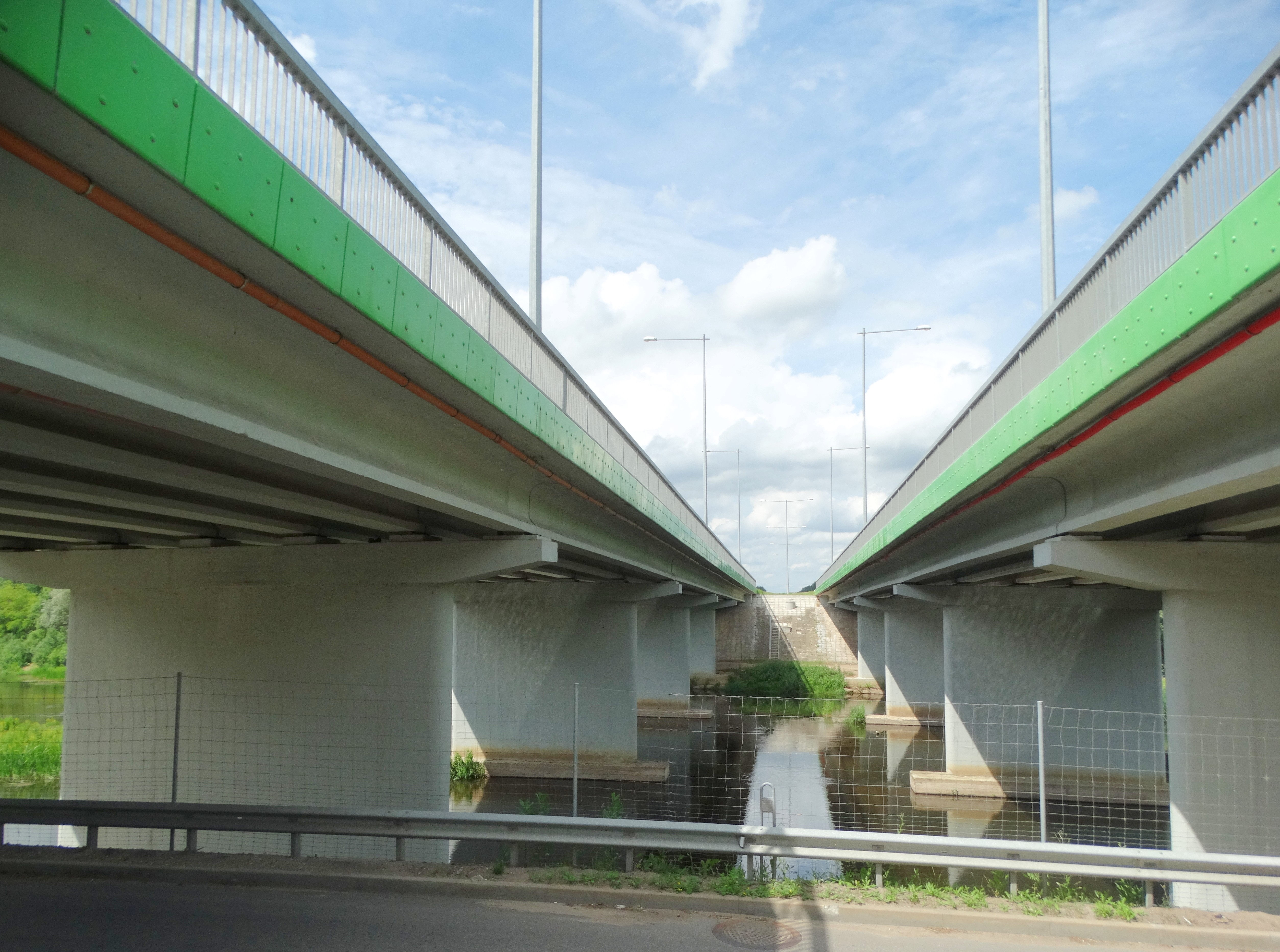 A2 highway bridge over the Šventoji River, by Ukmergė, Lithuania